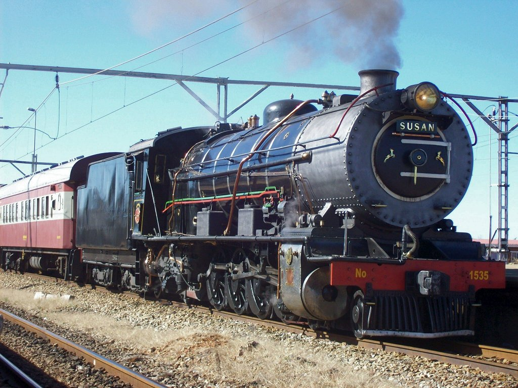 Class 12AR-1535 "Susan" Operated by Reefsteamers, photographed at Maraisburg Station 2009.